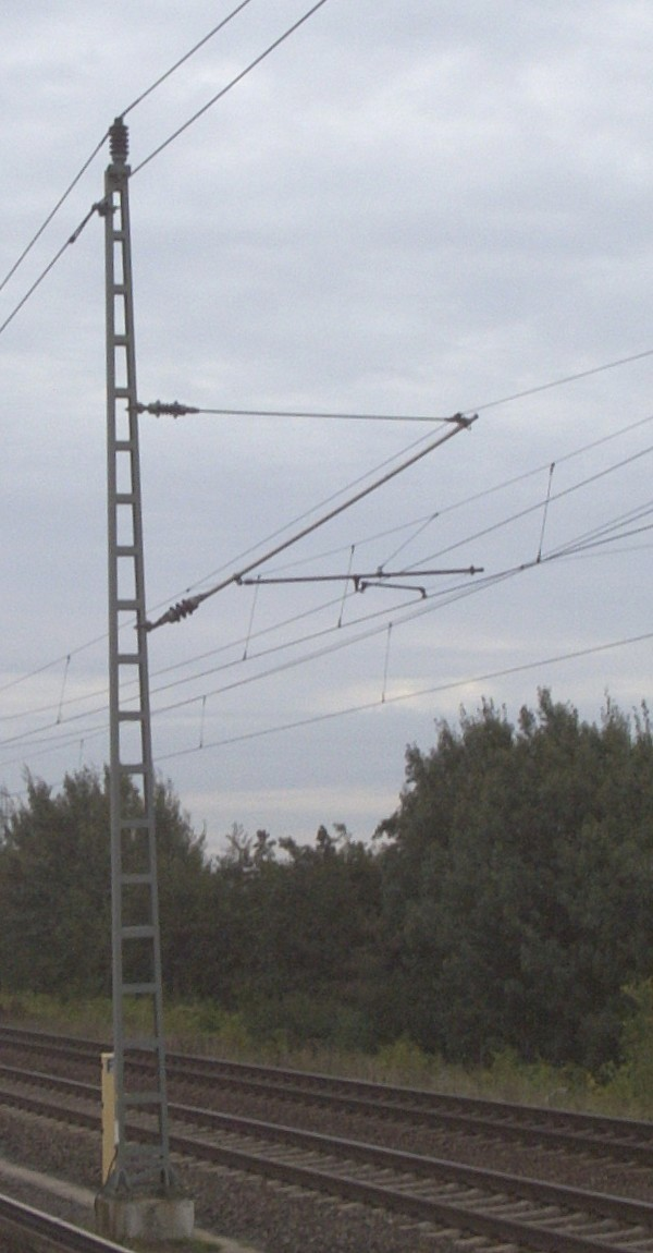 Pylon of steel for overhead lines (15000 volts, 16,7 Hz) of Deutsche Bahn (German rail).